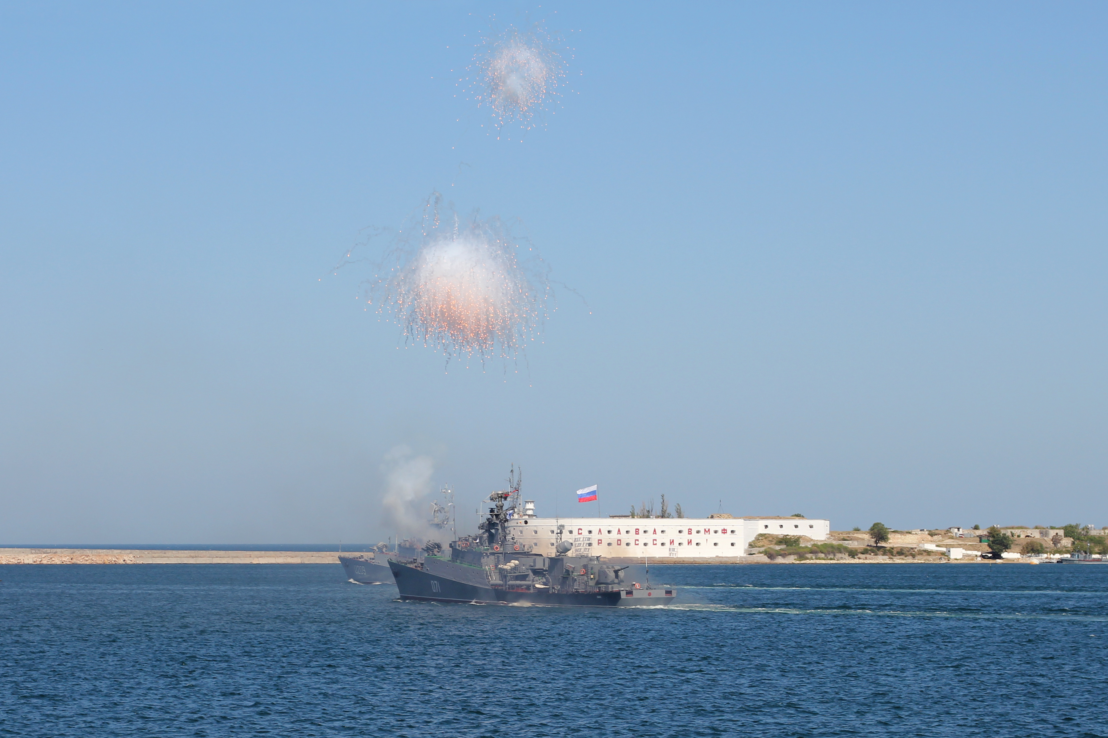 Joint celebration of The Navy Day in Russia and Ukraine. Sevastopol bay. Dress rehearsal. Salute.